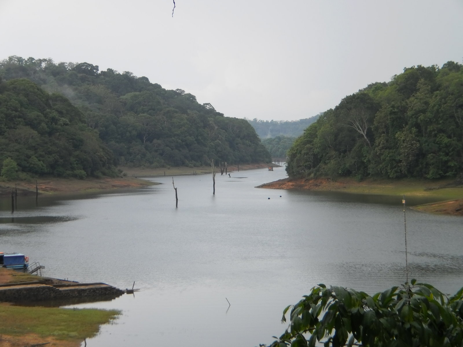 Thekkady Lake, in Kerala